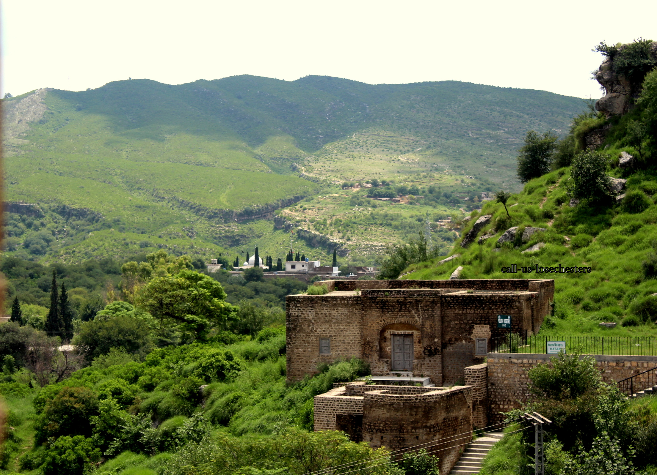 View from the windows of katas raj temple